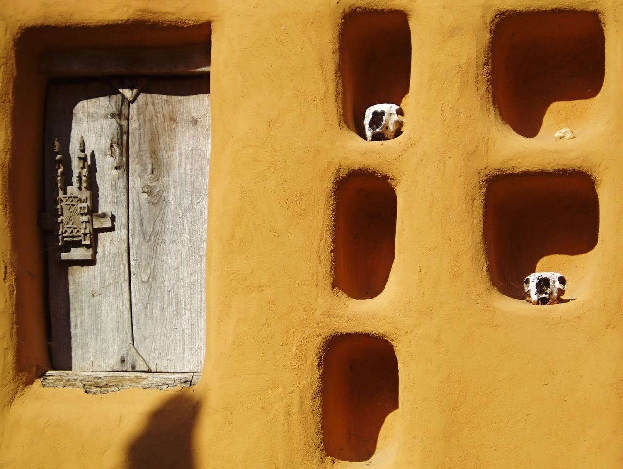 Dogon cob house in Mali.